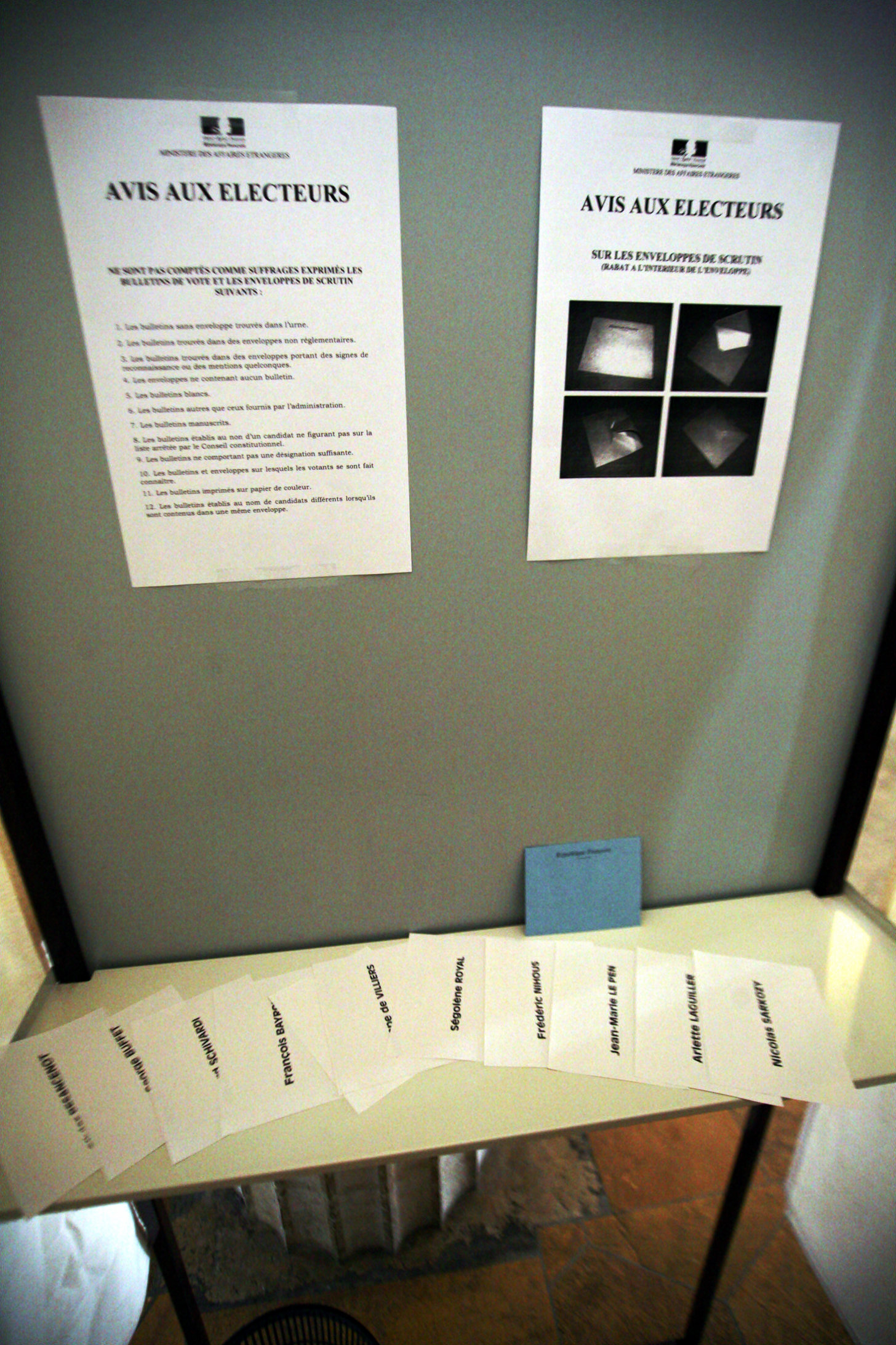 Inside of a French voting booth